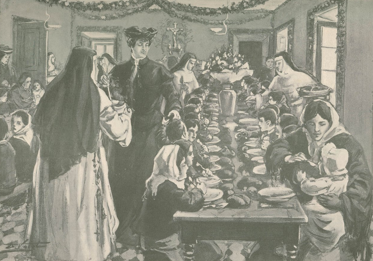 Queen Maria Amélia of Portugal serves soup to destitute children, Christmas 1903.